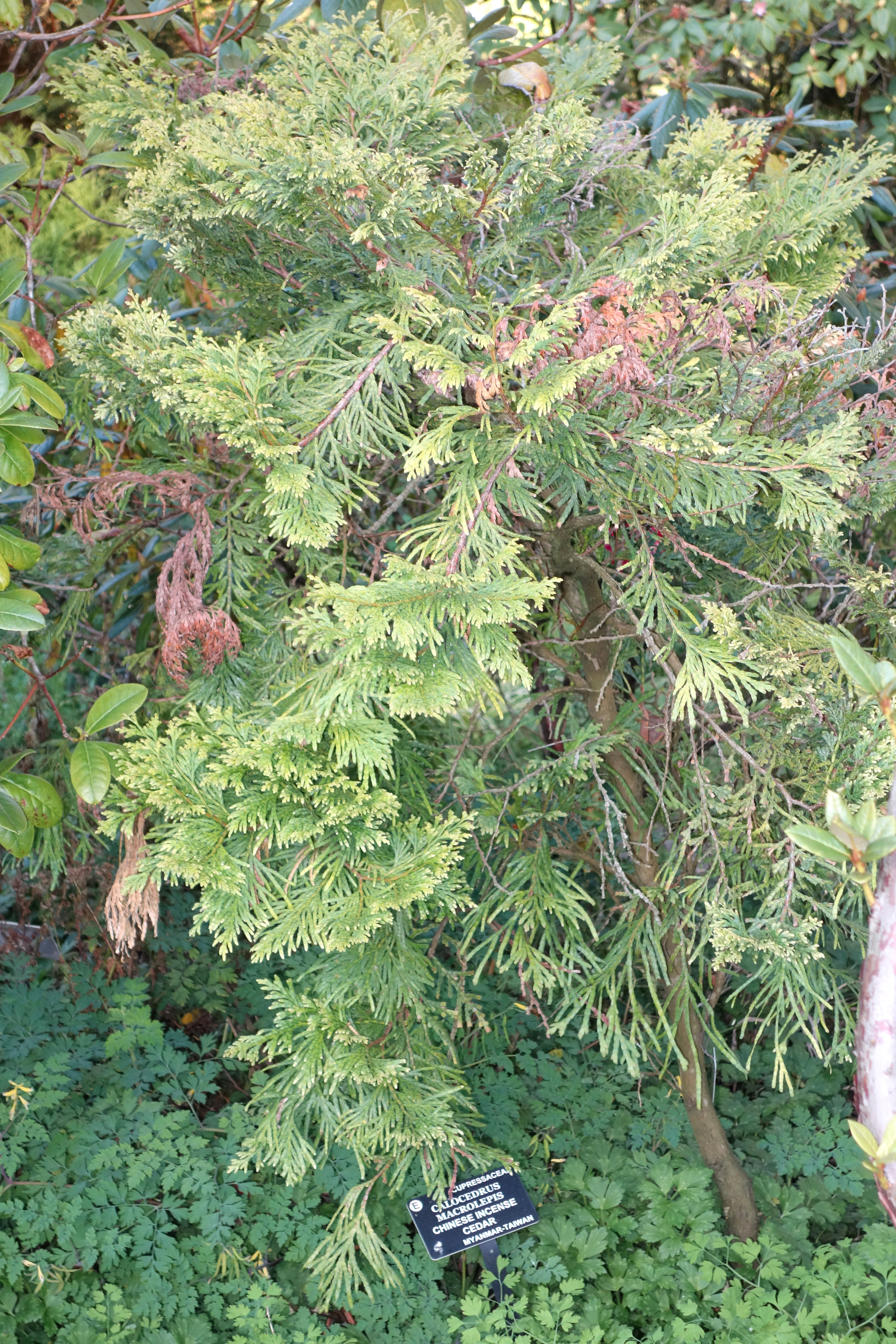 Botanical specimen in the San Francisco Botanical Garden, San Francisco, California, USA.